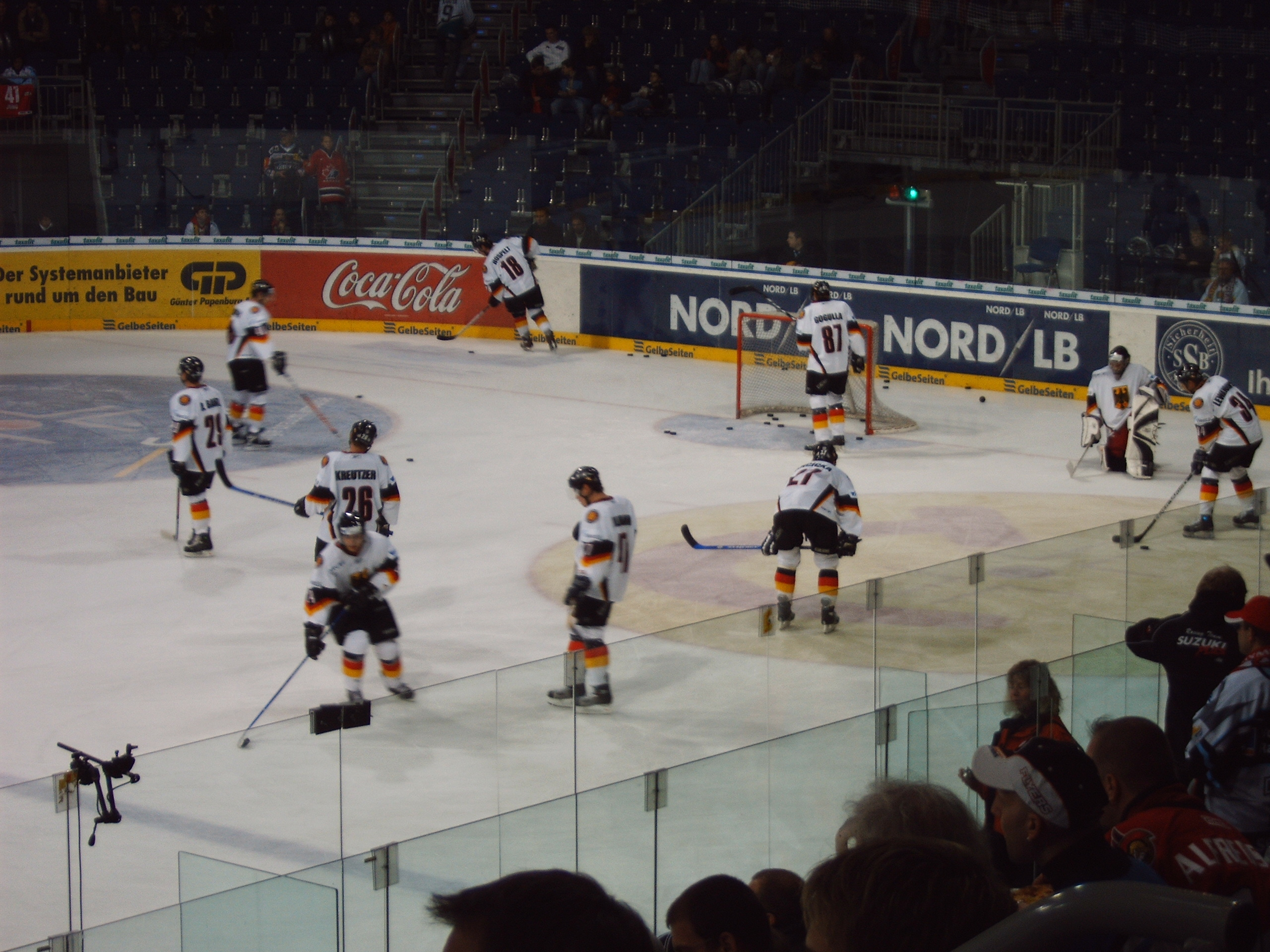 Icehockeynationalteam of Germany at the Deutschlancup (Nov 2006; Hannover)